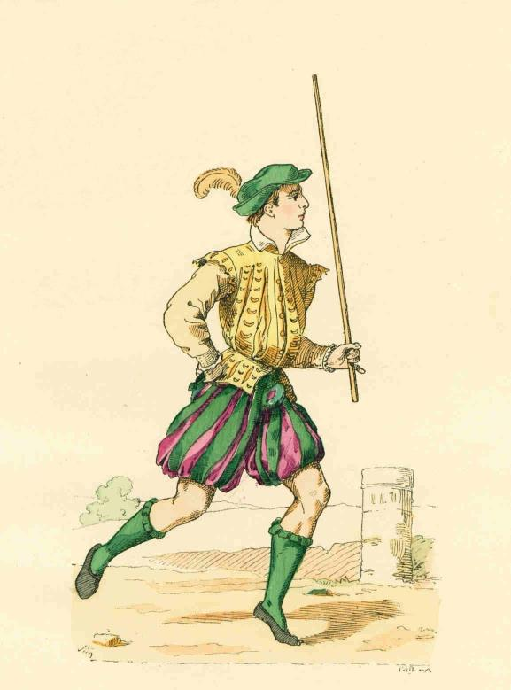 Engraving published c. 1860 by F. Roy, entitled Laquais coureur au XVe siècle (d'après une estampe coloriée de 1567) [15th century messenger (after a hand-coloured engraving of 1567)]